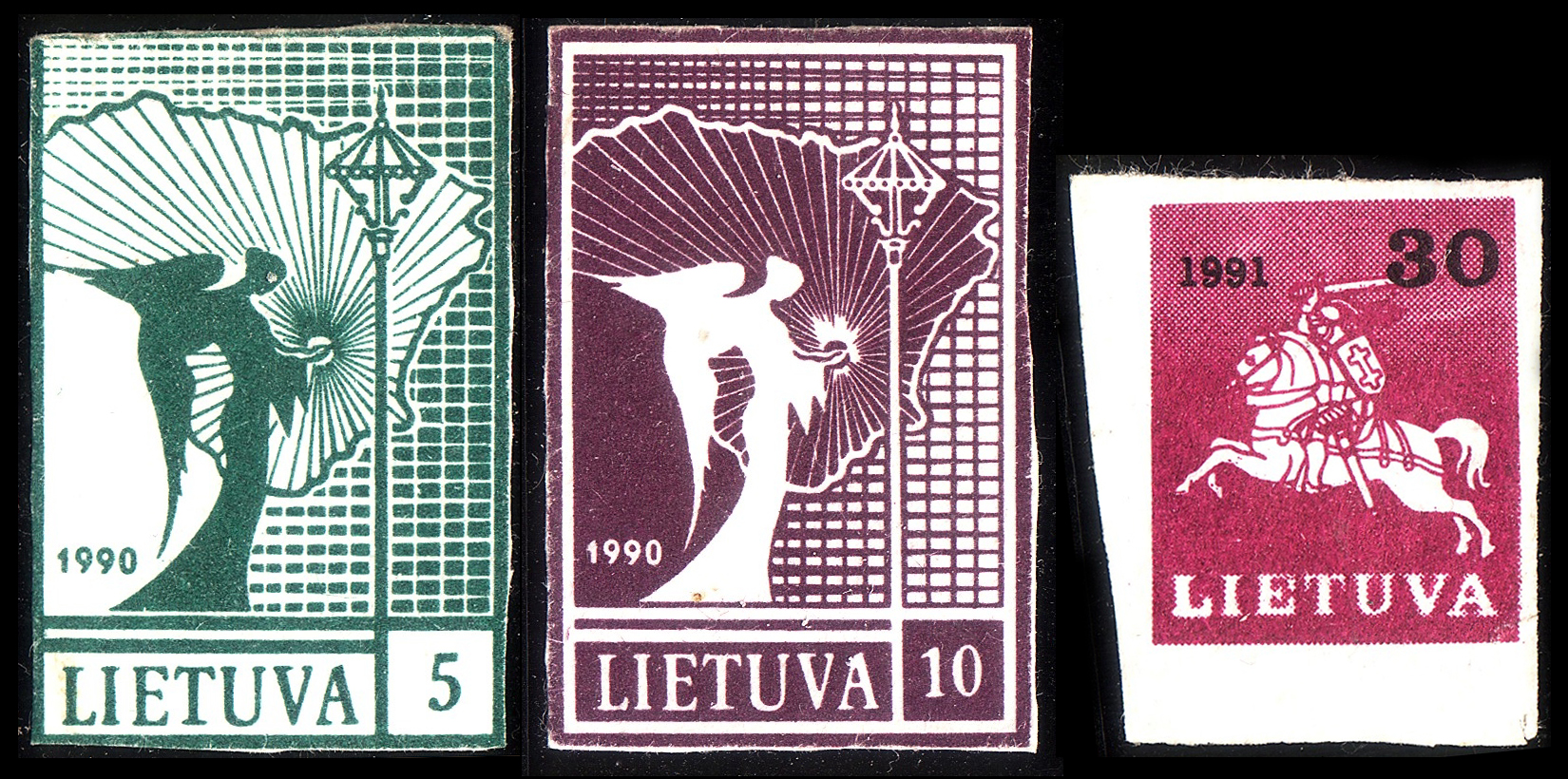 Illegal postage stamps of independent Lithuania issued in LitSSR, 5, 10 and 30 kopecks, 1990 and 1991